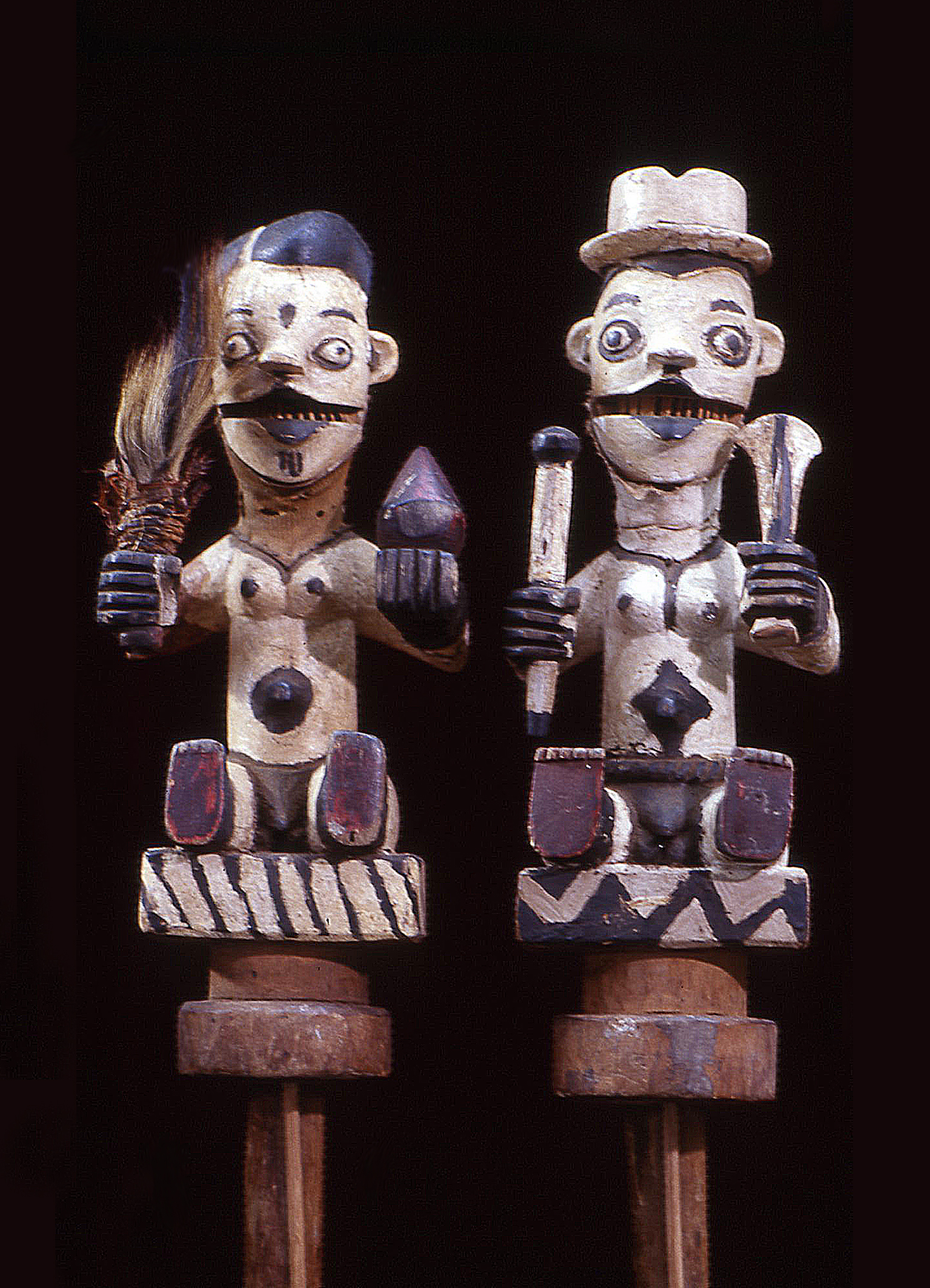 Ogoni, male figures, puppets made of wood, Nigeria